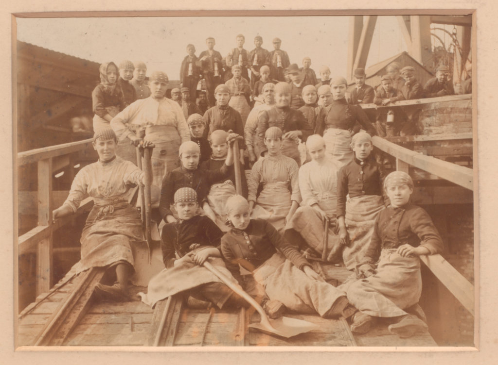 Miners at Hulton Park